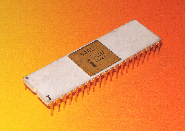 Intel 8080 microprocessor in white ceramic 40-pin dual in-line package with gold heat-spreader top. This appears to be a very early 8080 example (possibly dating from around 1974) that preceded the much more common 8080A, which had better electrical compatibility with standard TTL devices as well as other improvements.